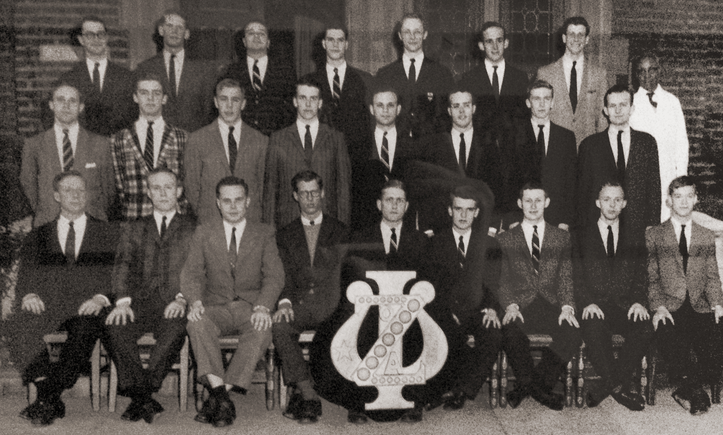 John du Pont (bottom left of the picture) in his Sigma days, at the University of Pennsylvania